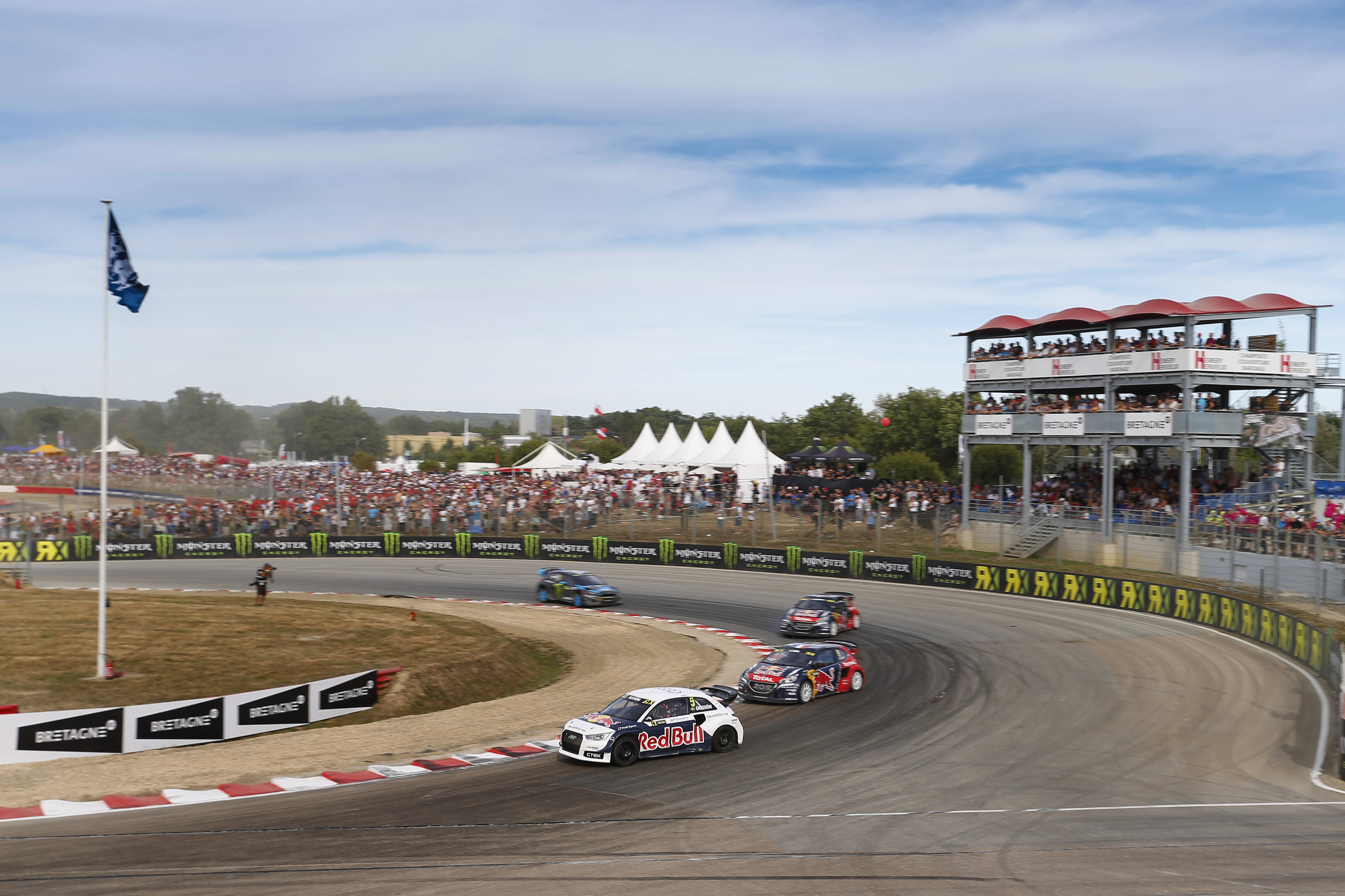 2016 FIA World RX Rallycross Championship / Round 08, Loheac, France, September 2-4 2016 // Worldwide Copyright:Tony Welam/EKS/McKlein